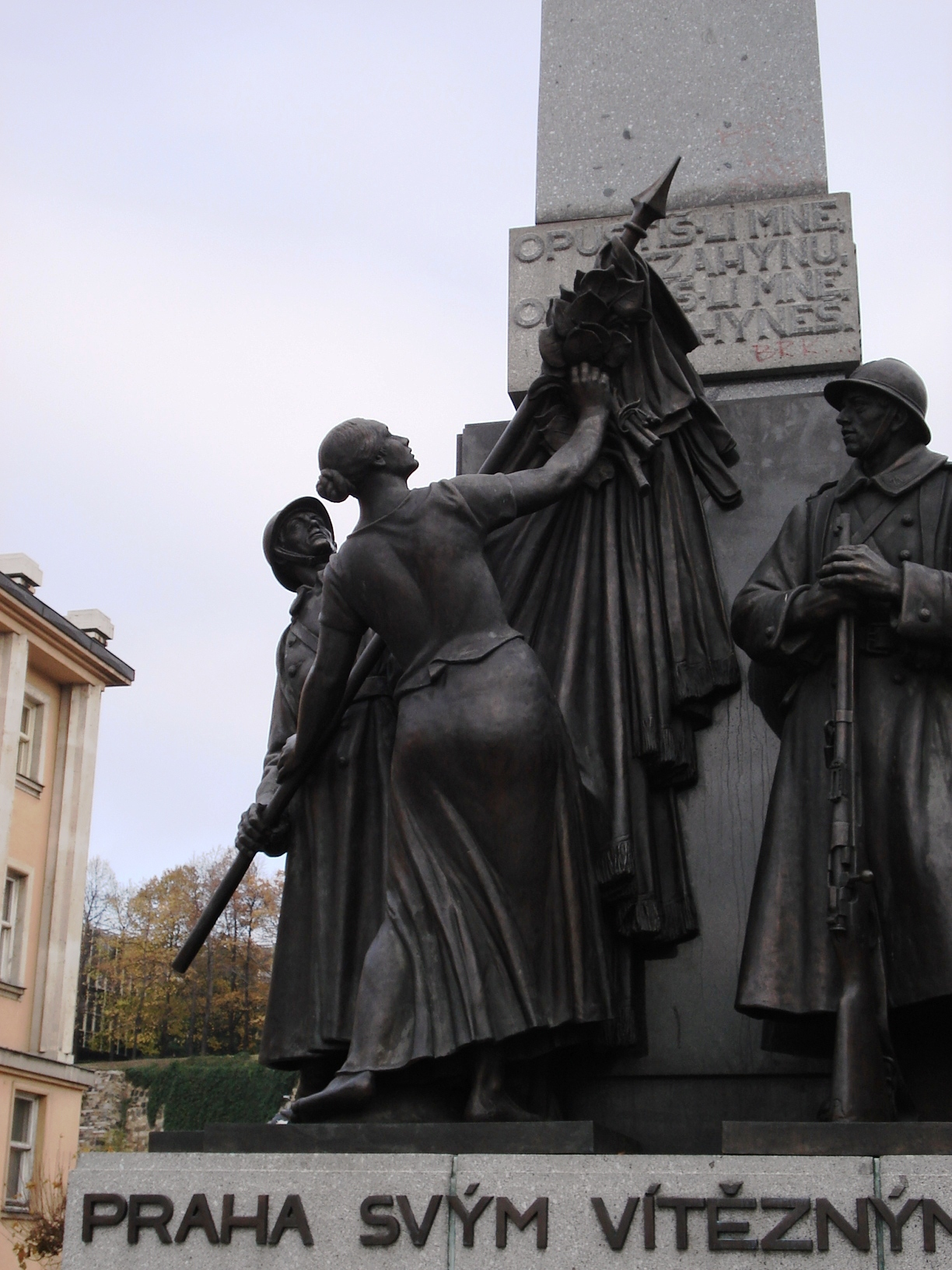 Monument to the Czech Legions in square Pod Emauzy, Prague.